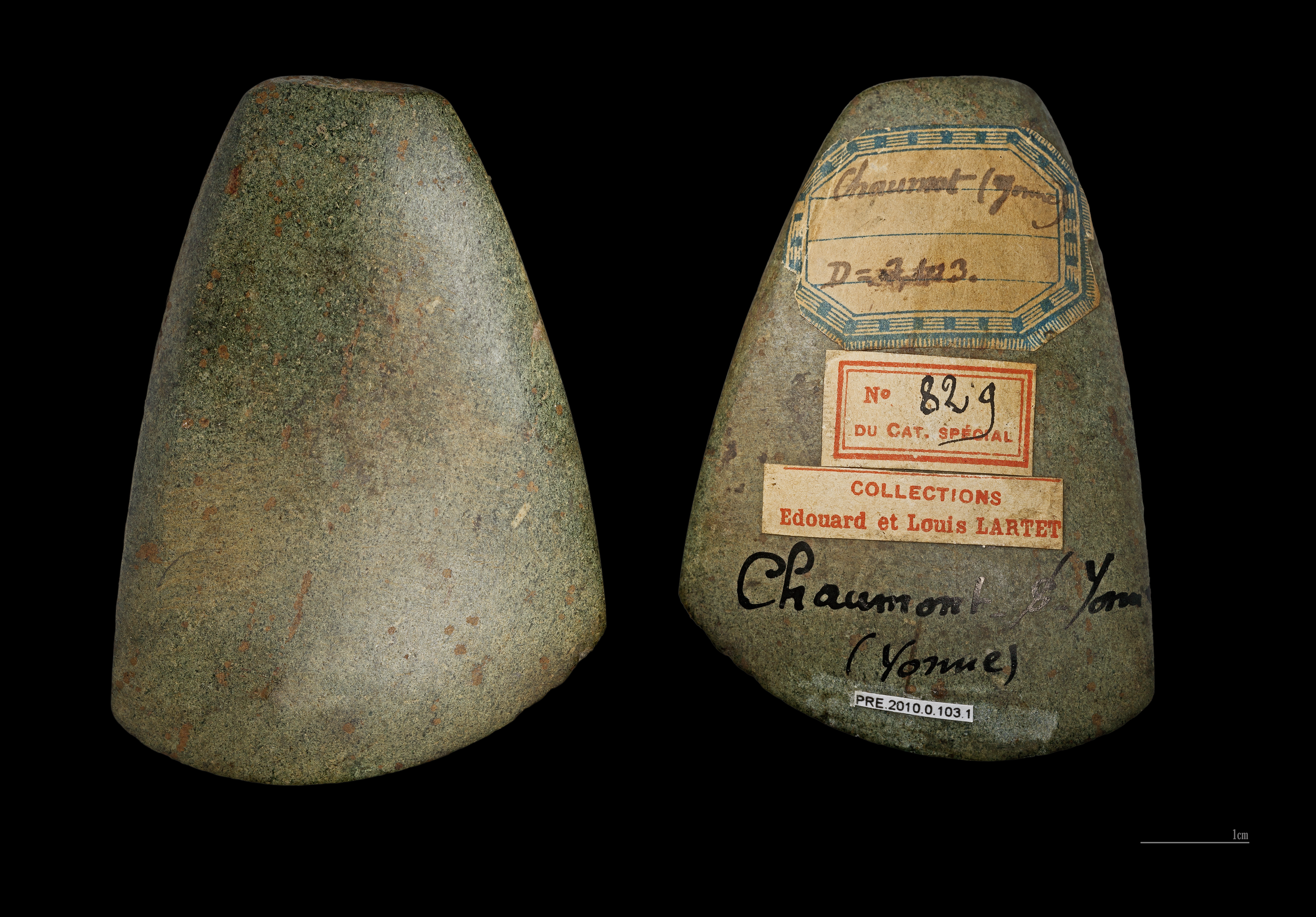 Prehistoric jade axe. Different views of the same specimen. Former collection of Edouard and Louis Lartet. Stage: Neolithic between, 9000 and 3500 BP. Locality: Chaumont, Yonne, France. Size: 6.7x4.7x2 cm 100.9 g.